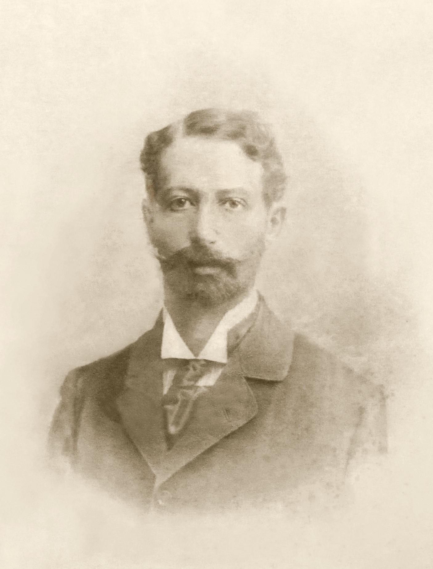 Gottfried Malowan, founder of the company Malowan & Franz, in the year 1875. Unknown photographer.